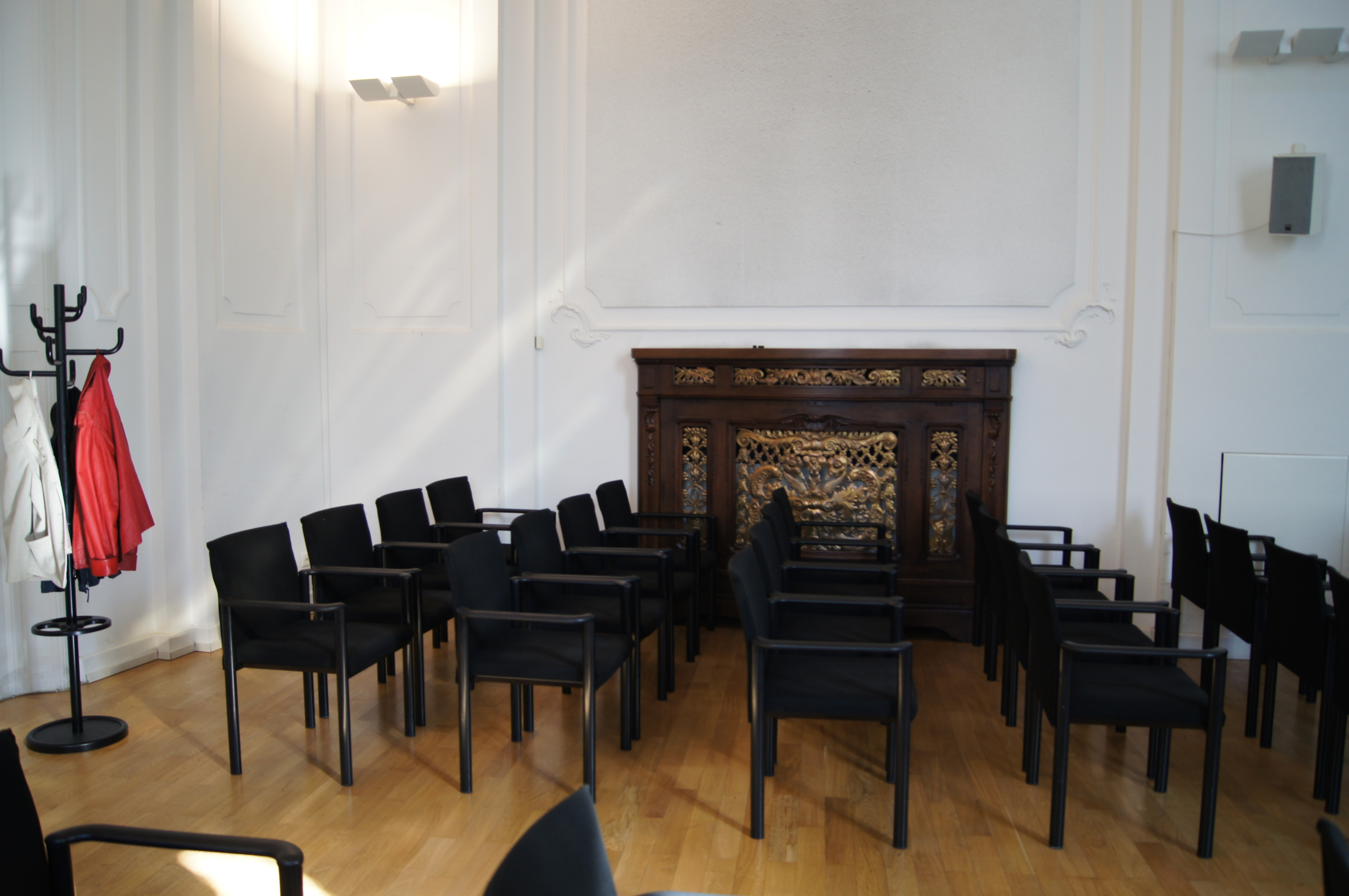 Former government building, now European University Viadrina in Frankfurt (Oder)